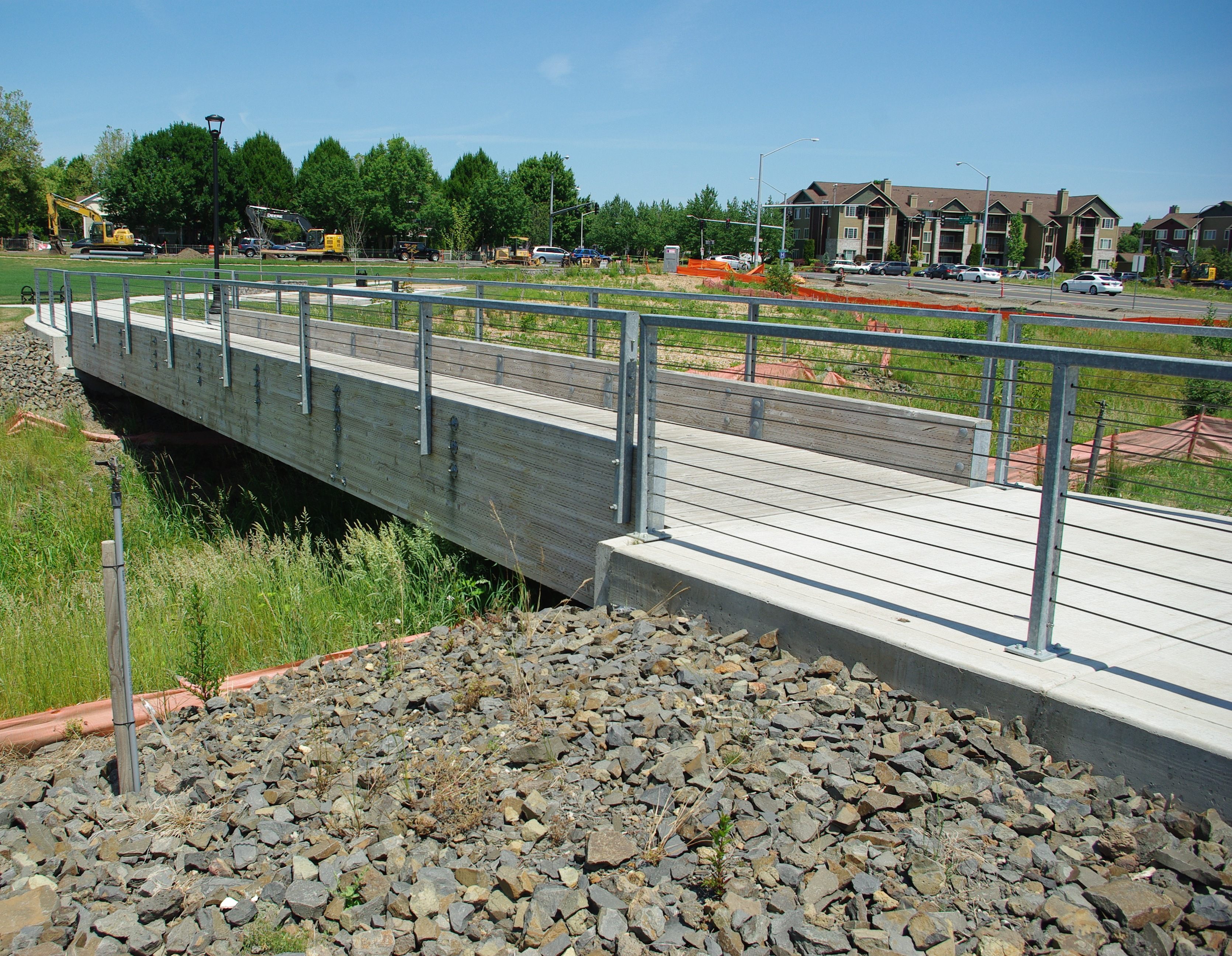 Bridge in Cornell Creek Park in Hillsboro, Oregon. Copyright info.